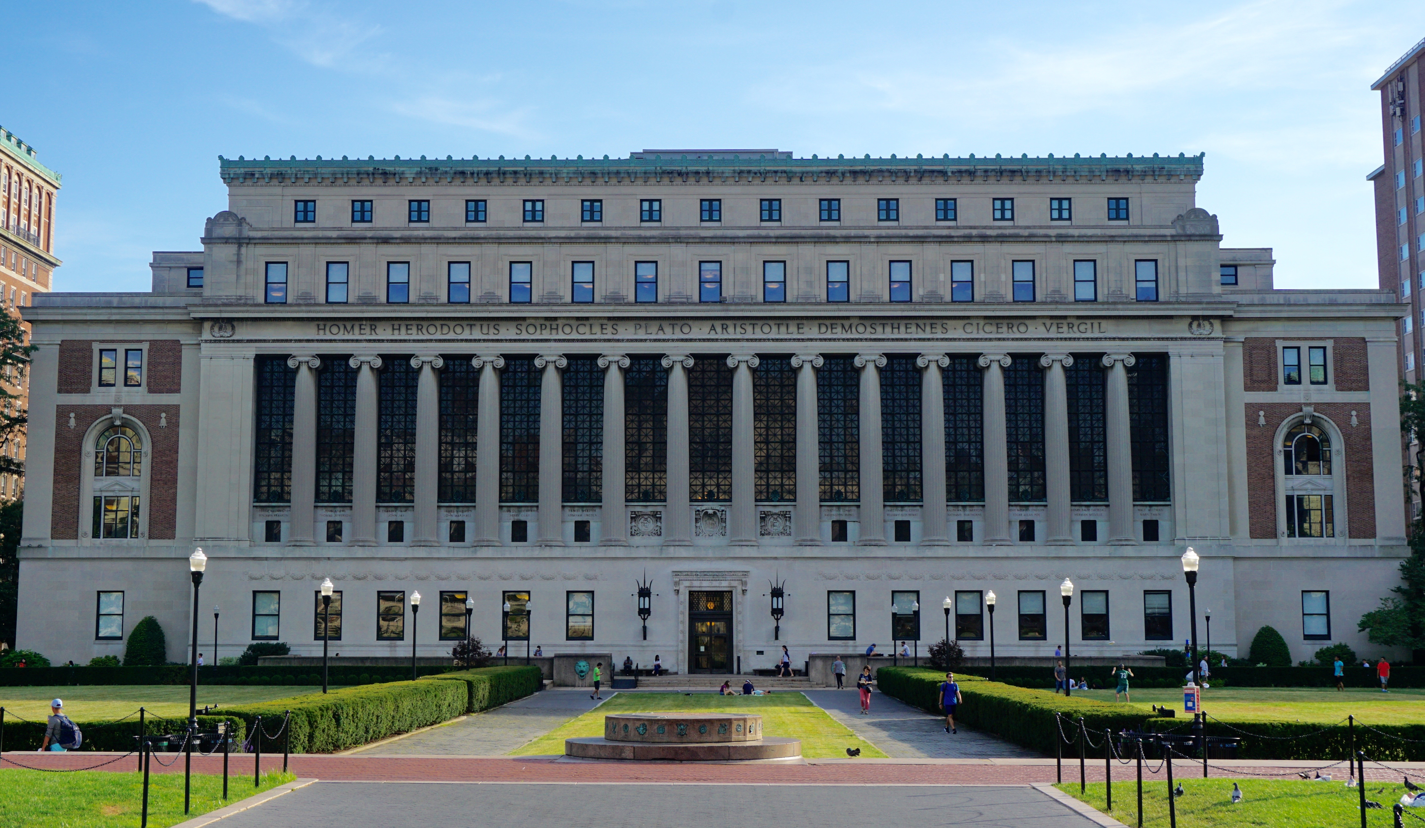 Photograph of Butler Library, Columbia University's largest single library.